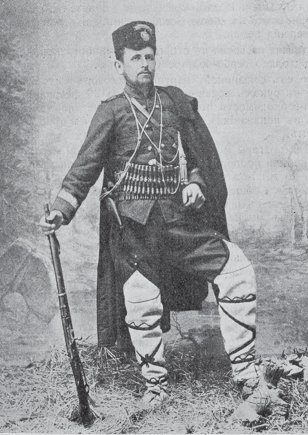 Portrait of Pavle Čupovski.